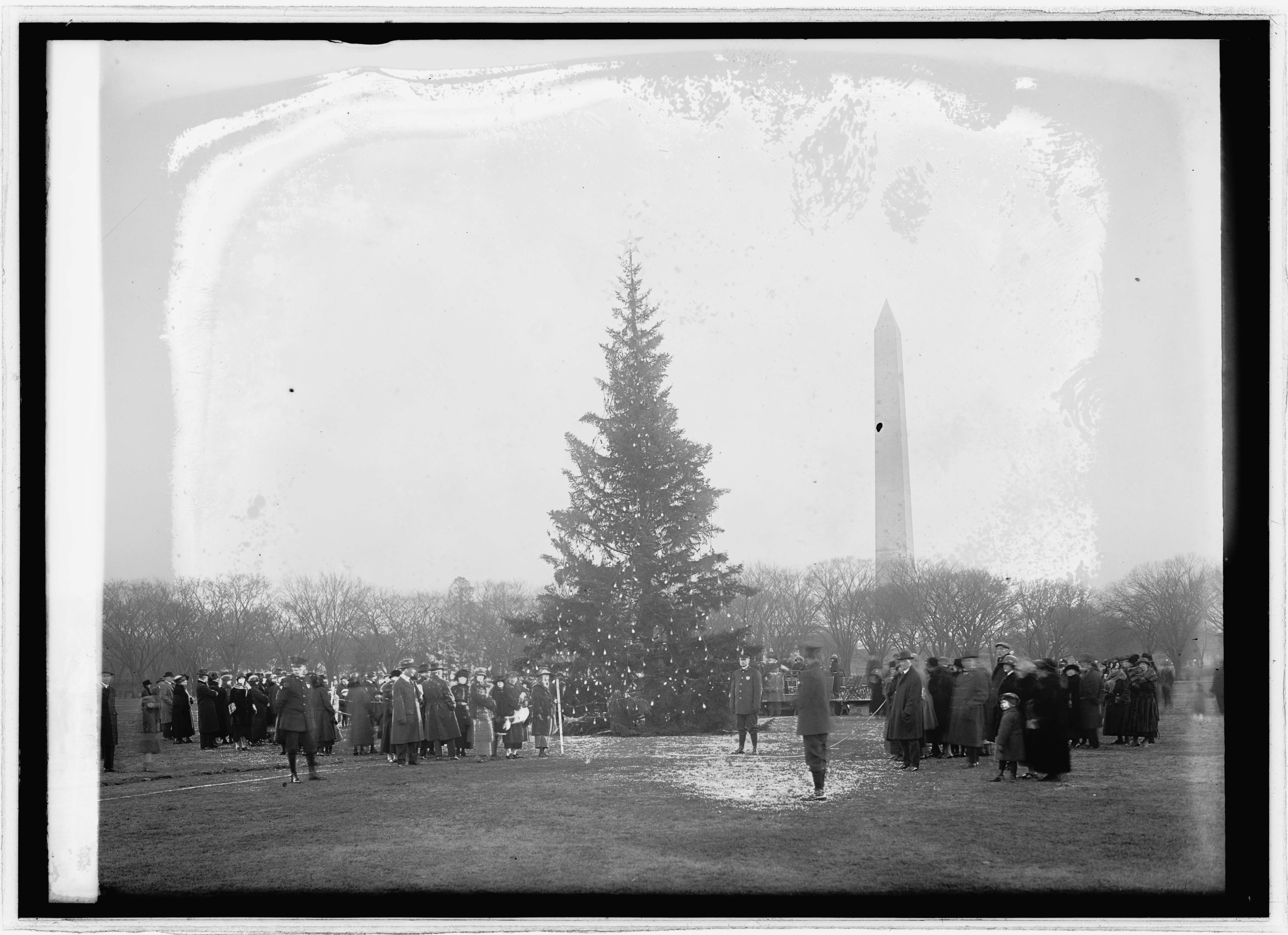 Title: Community Christmas tree, 12/24/23 Abstract/medium: 1 negative : glass ; 5 x 7 in. or smaller